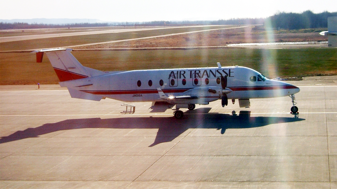 Beech_1900D Airliner equipped by Air Transse taken at TokachiObihiro Japan